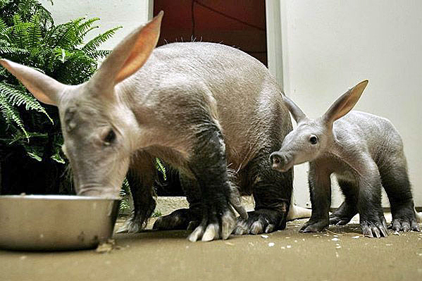 Aardvark and juvenile.